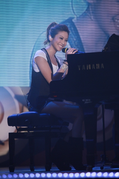 Cindy Yen's guest performance at Asian Millionstar of ATV, 2010.A girl sitting at a piano with a mic with a big smile on her face.